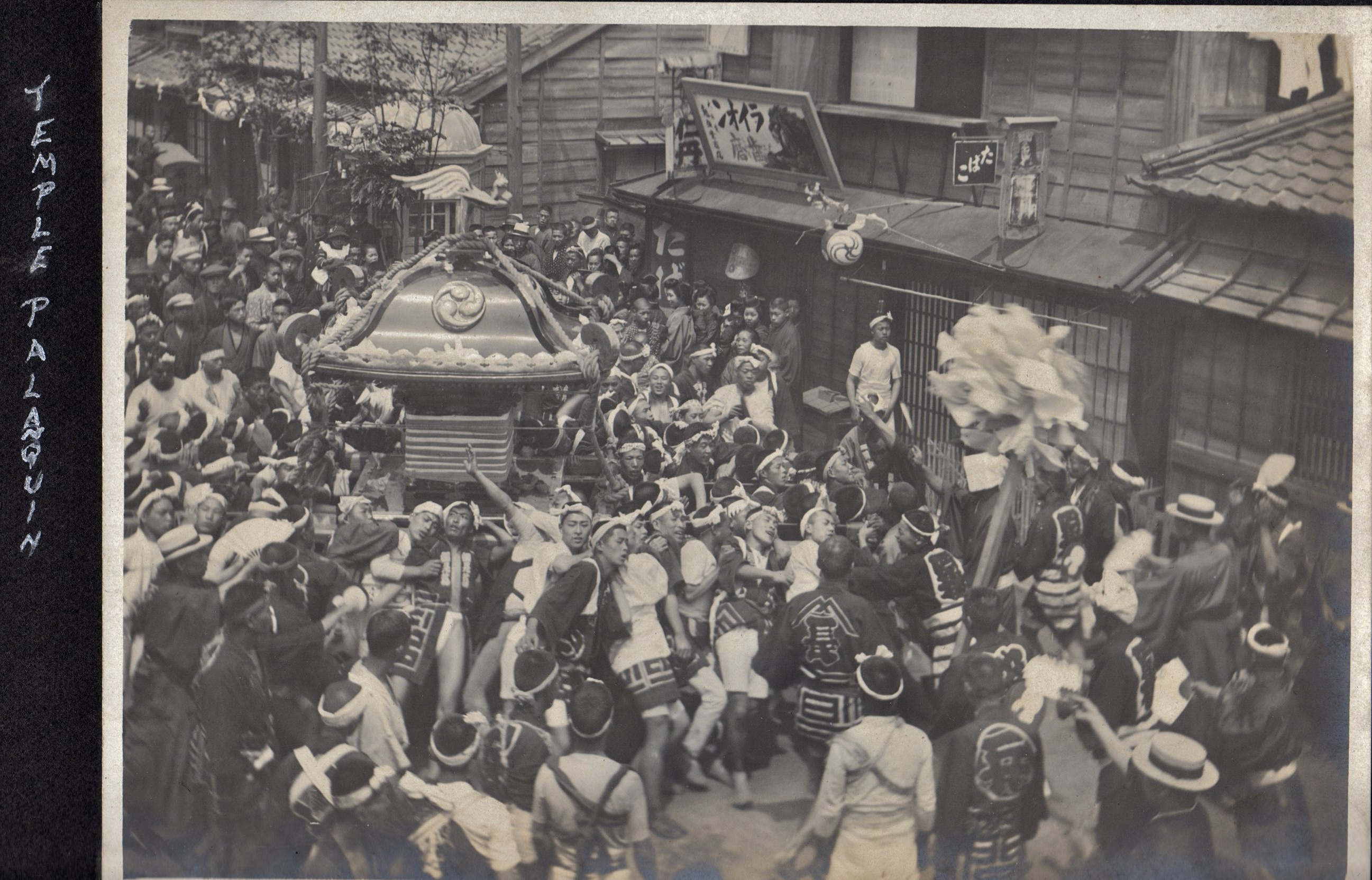 This photo is from an album my spouse's uncle Elstner Hilton compiled in Japan between 1914 and 1918. While Uncle Elstner was pretty good about annotating the photos that required an explanation of some sort, he did not date the pictures. So all we know is they date to between January, 1914 and December, 1918.